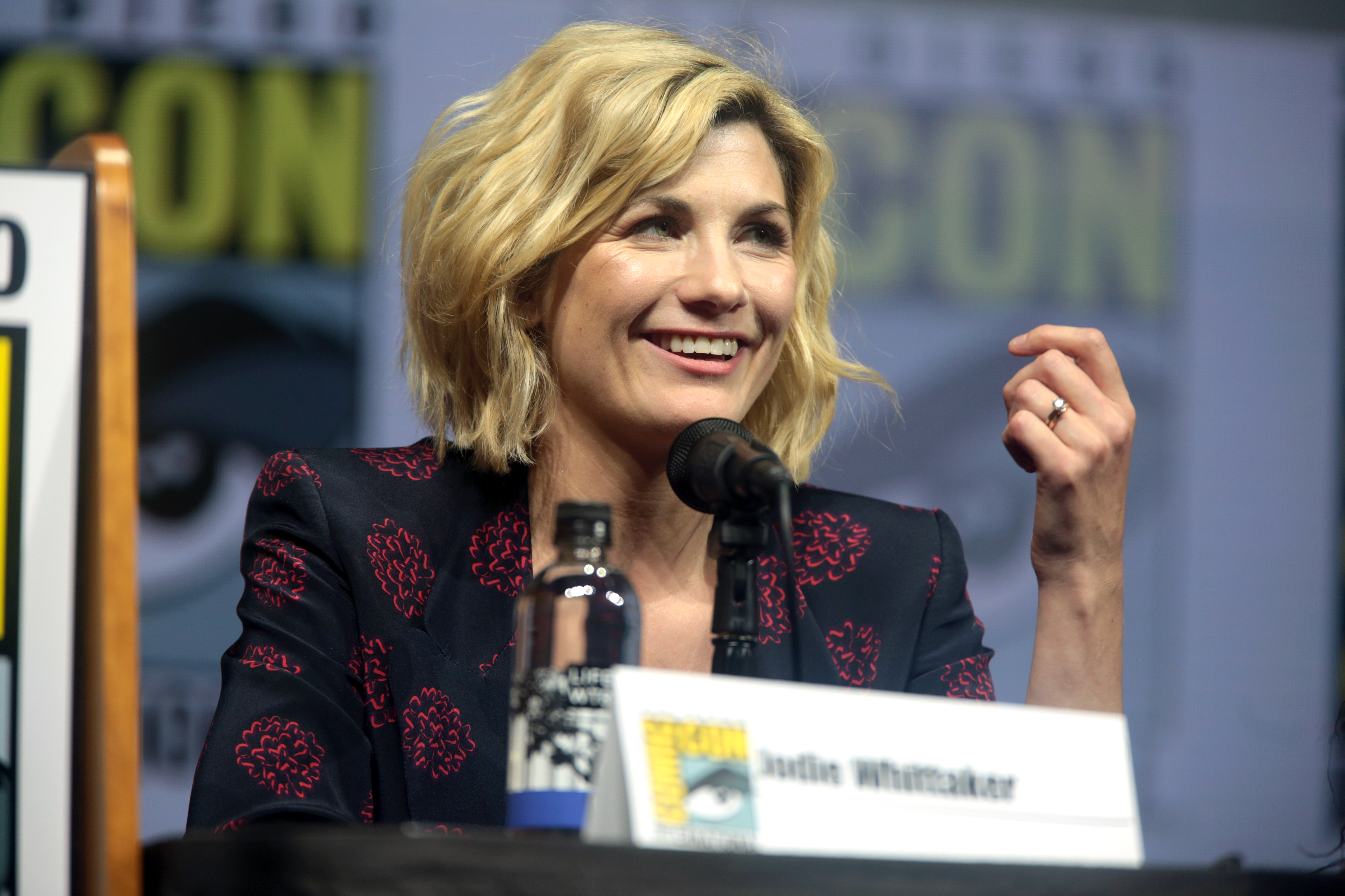 Jodie Whittaker speaking at the 2018 San Diego Comic Con International, for "Entertainment Weekly's Women Who Kick Ass", at the San Diego Convention Center in San Diego, California.